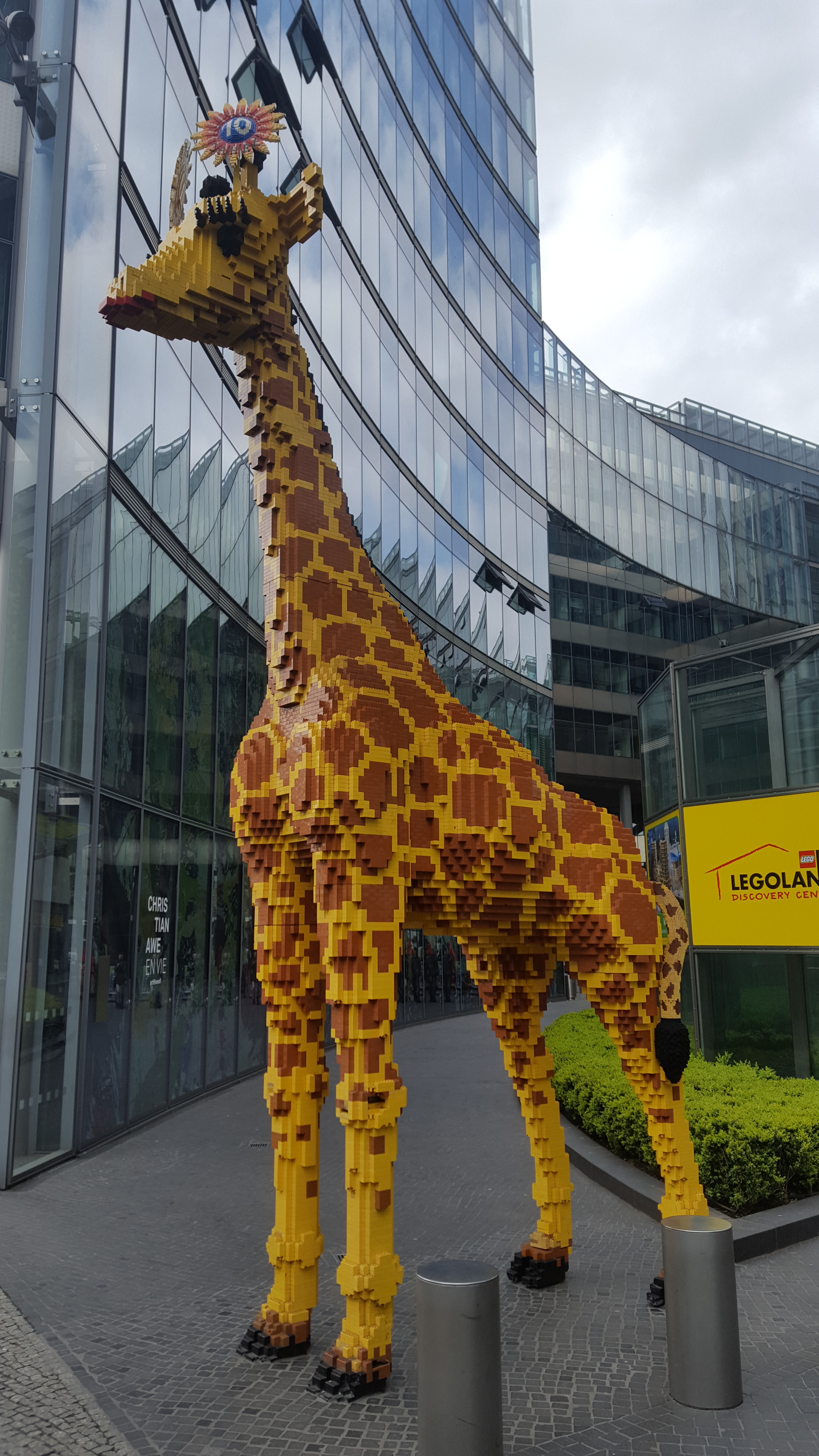 Der beliebteste Cache Deutschlands: Lego - einer ist zuviel mit 11.073 Favoritenpunkte (Stand: 13.10.19)